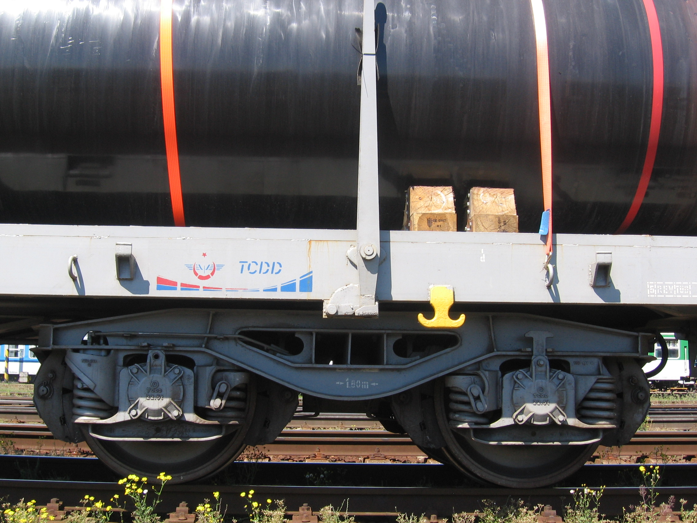 TCDD wagon class Sgss-w No. 31 75 456 9 114-7 at Pardubice main station with pipes for pipeline Gazela.